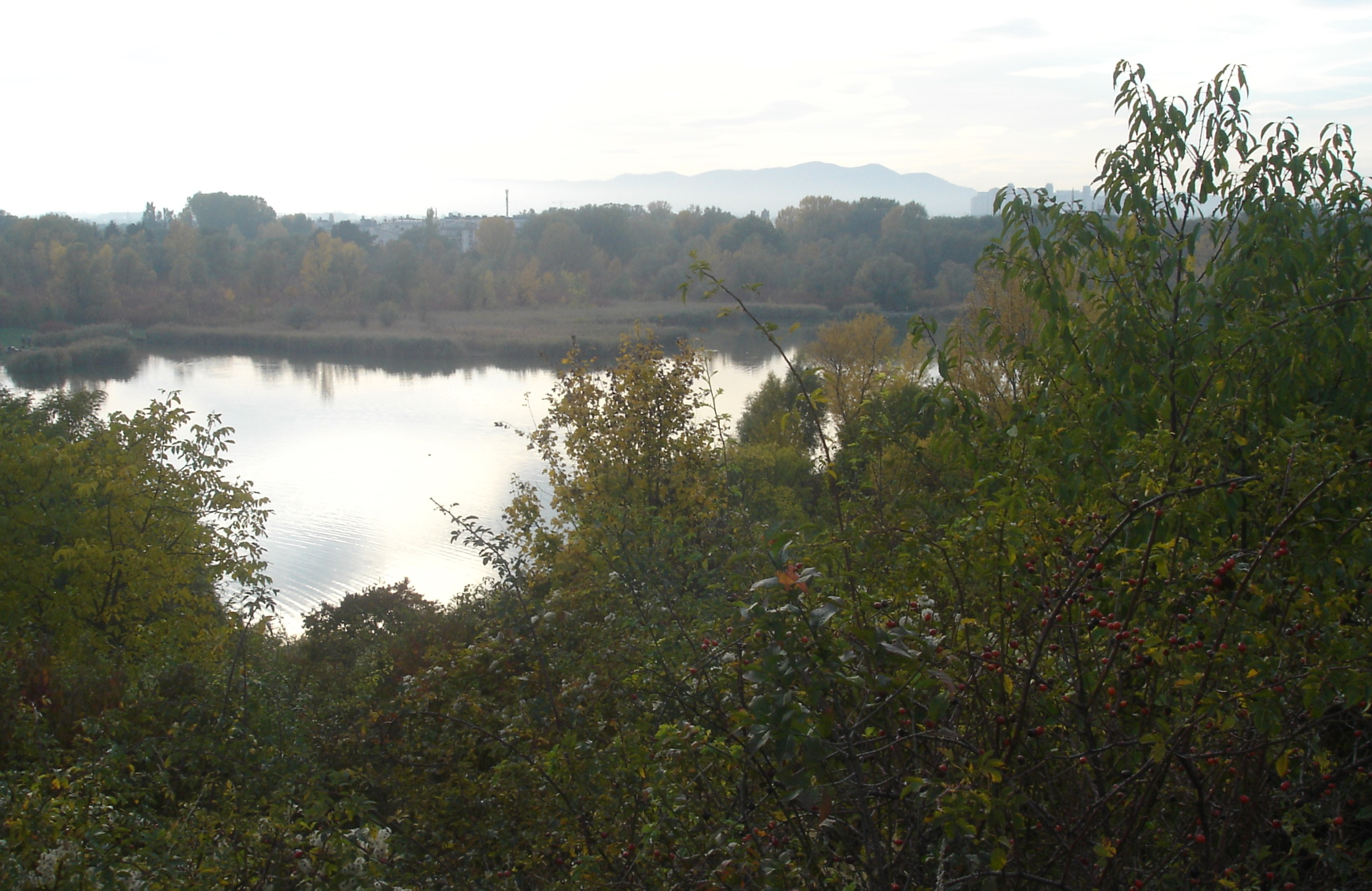 Lake view (Erholungsgebiet Wienerberg)